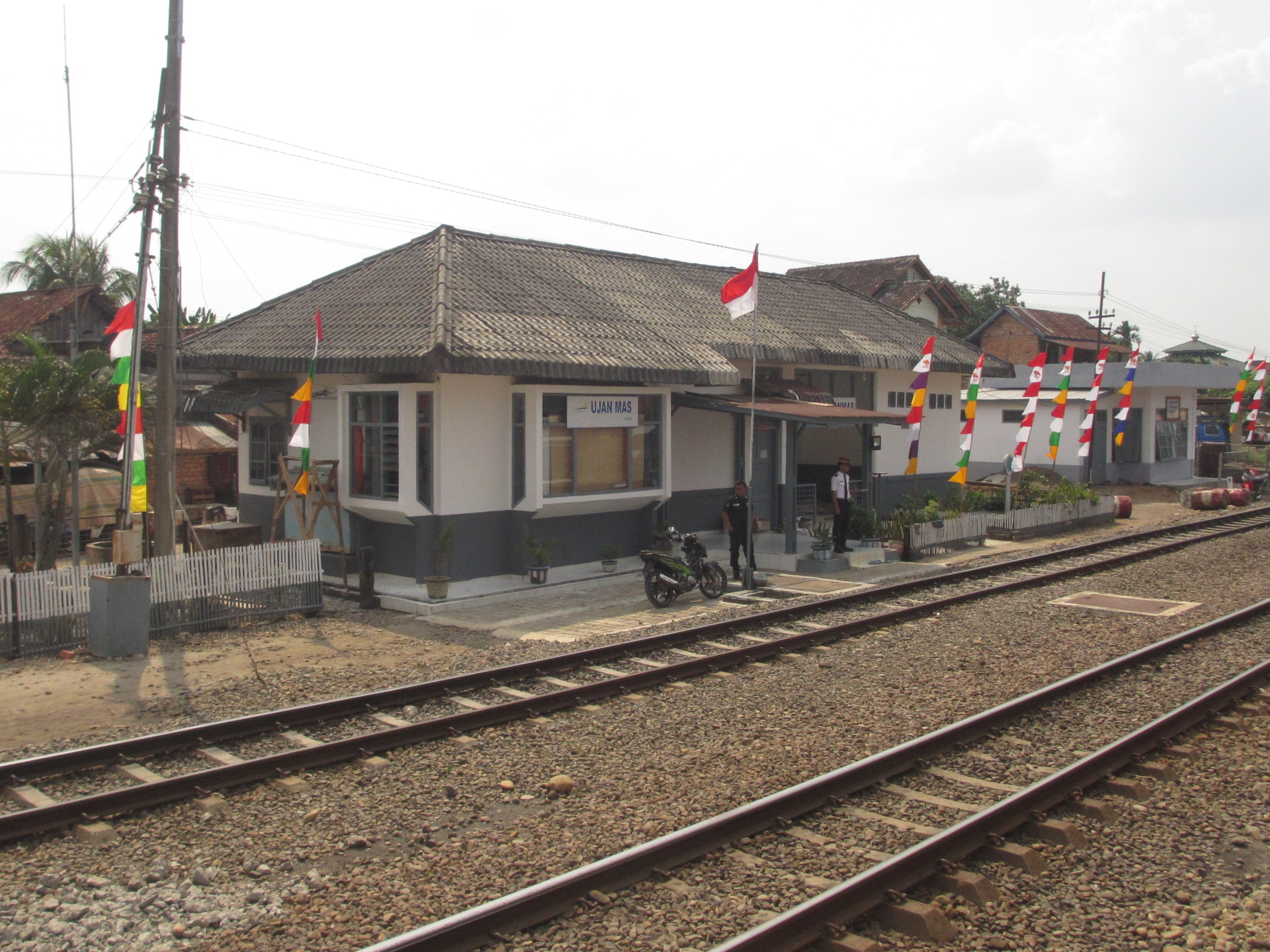 Ujanmas Railway Station.